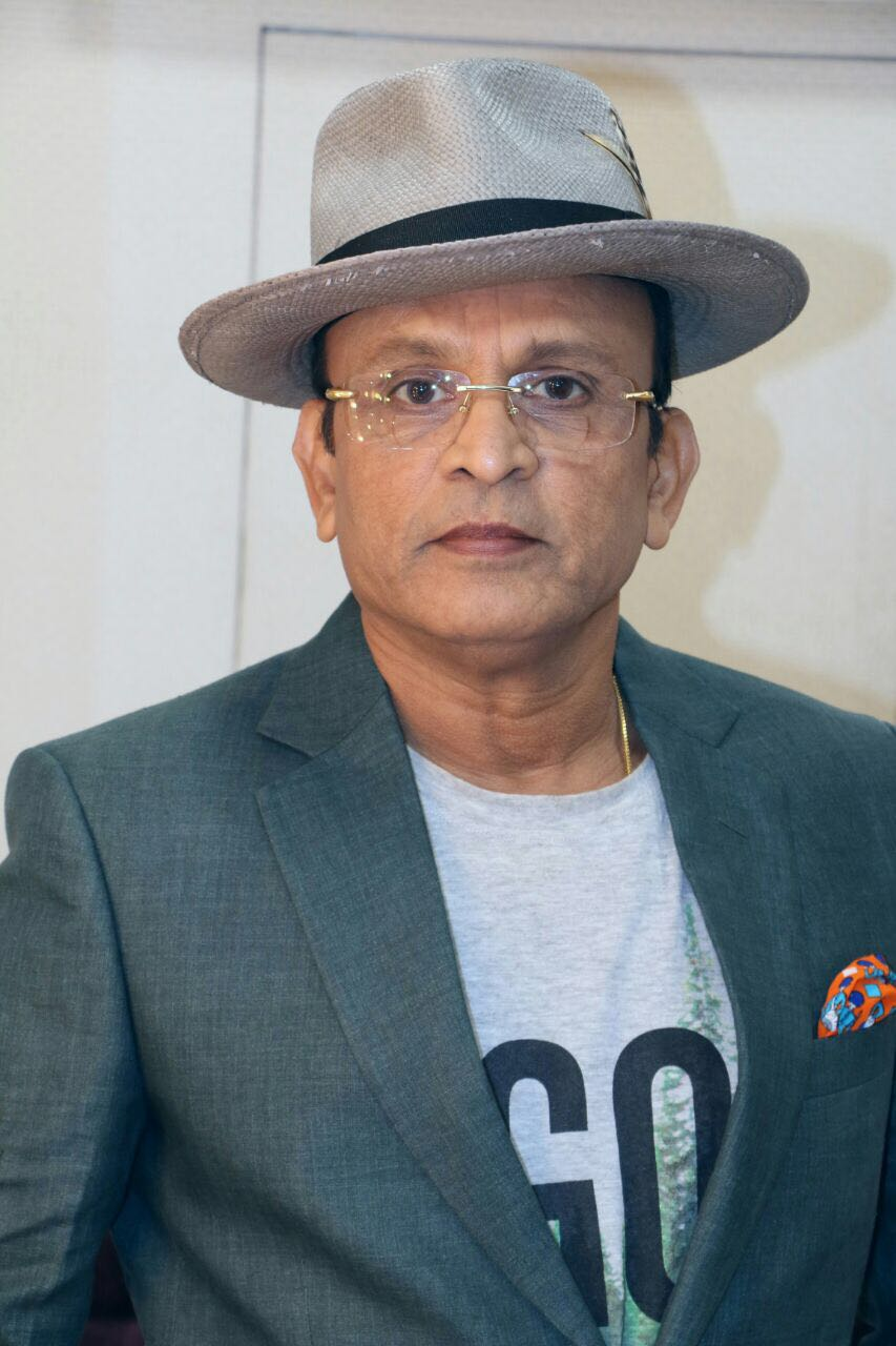 Annu Kapoor during the promotions of Jolly LLB 2.